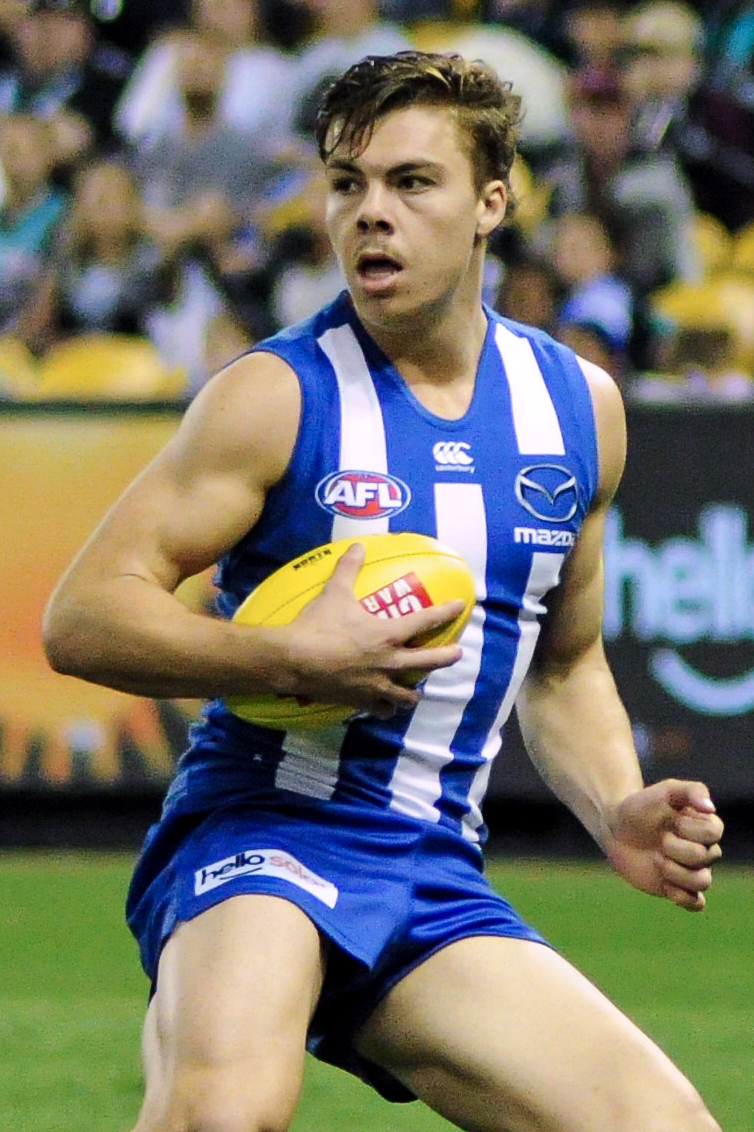 Cameron Zurhaar during the AFL round six match between North Melbourne and Port Adelaide on Saturday, 28 April 2018 at Etihad Stadium in Melbourne, Victoria.